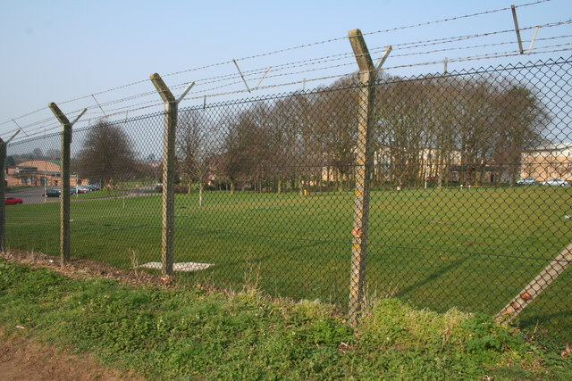 RAF Chicksand barracks